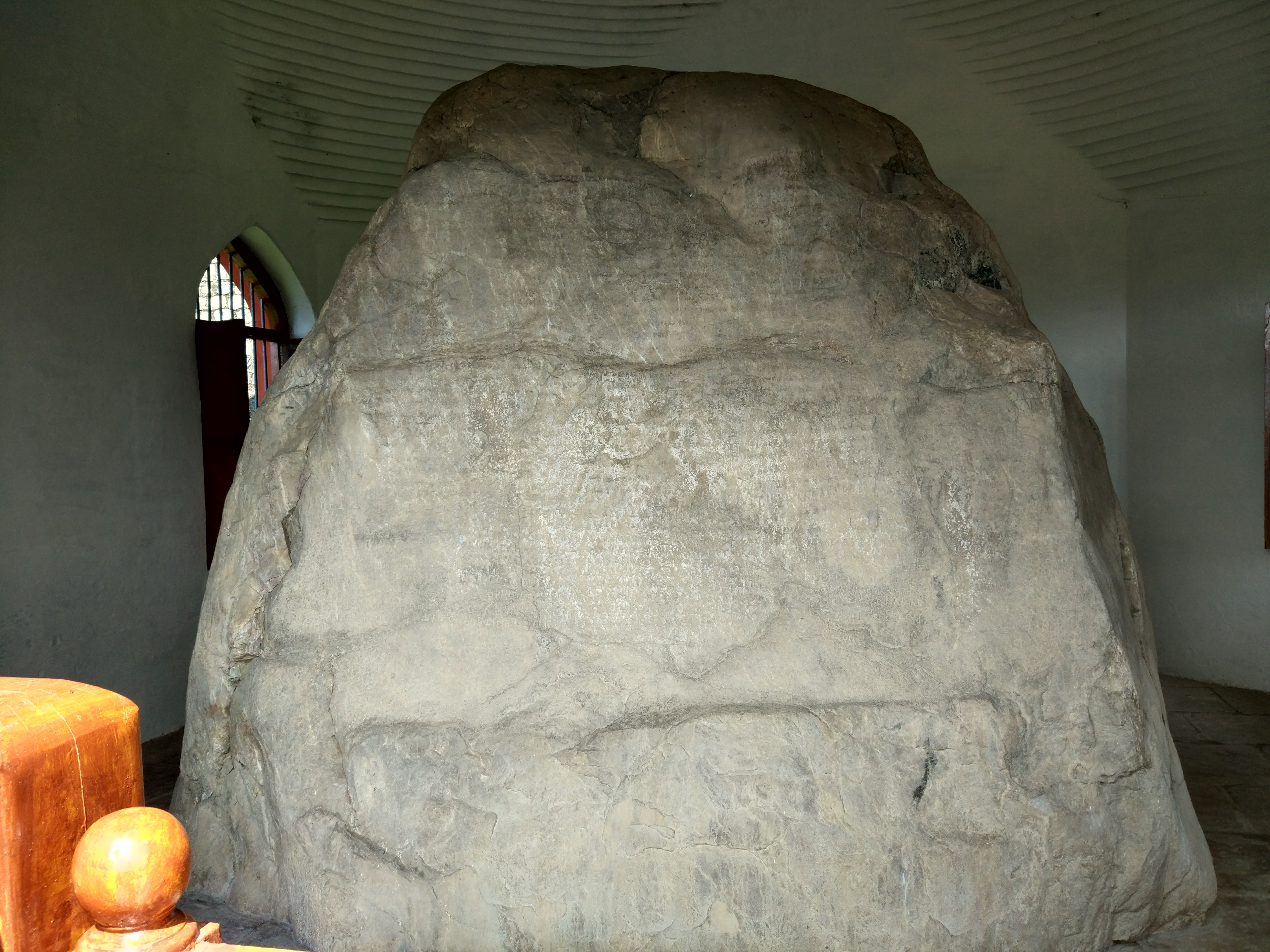 The inscribed rock edicts of Asoka